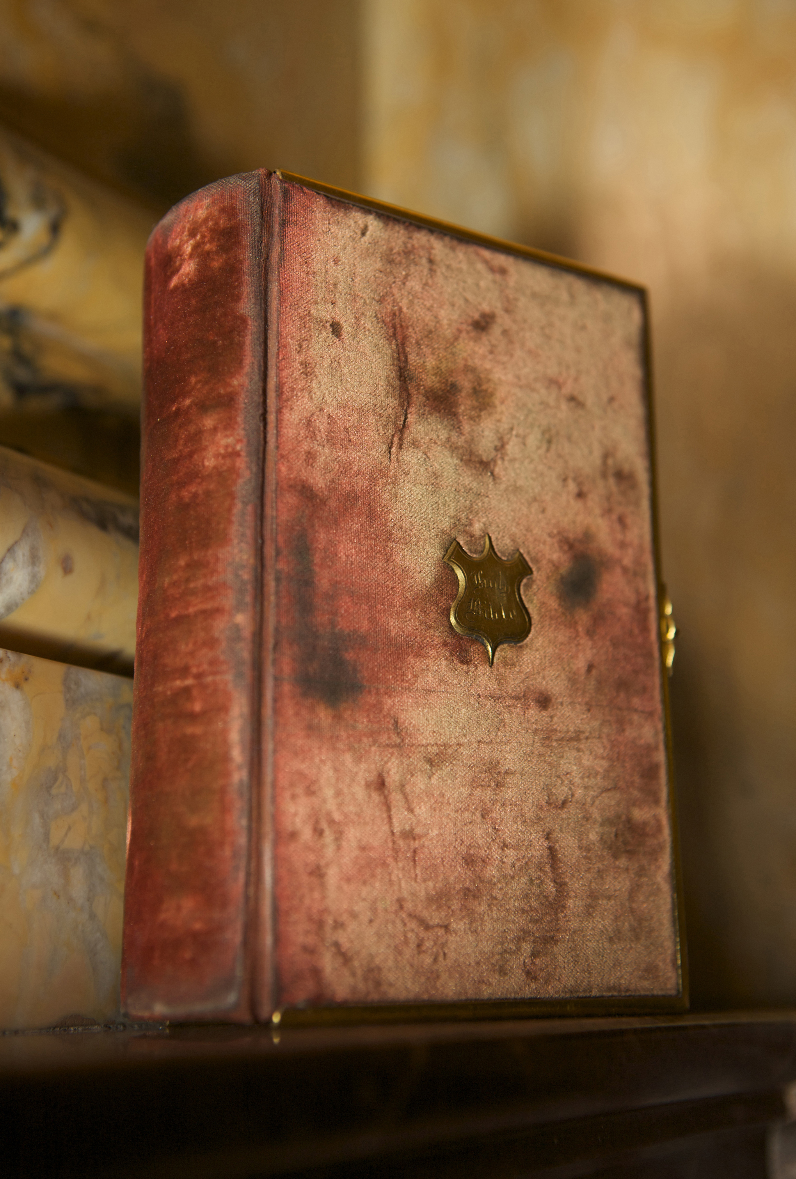 The bible used by Abraham Lincoln for his oath of office during his first inauguration in 1861.